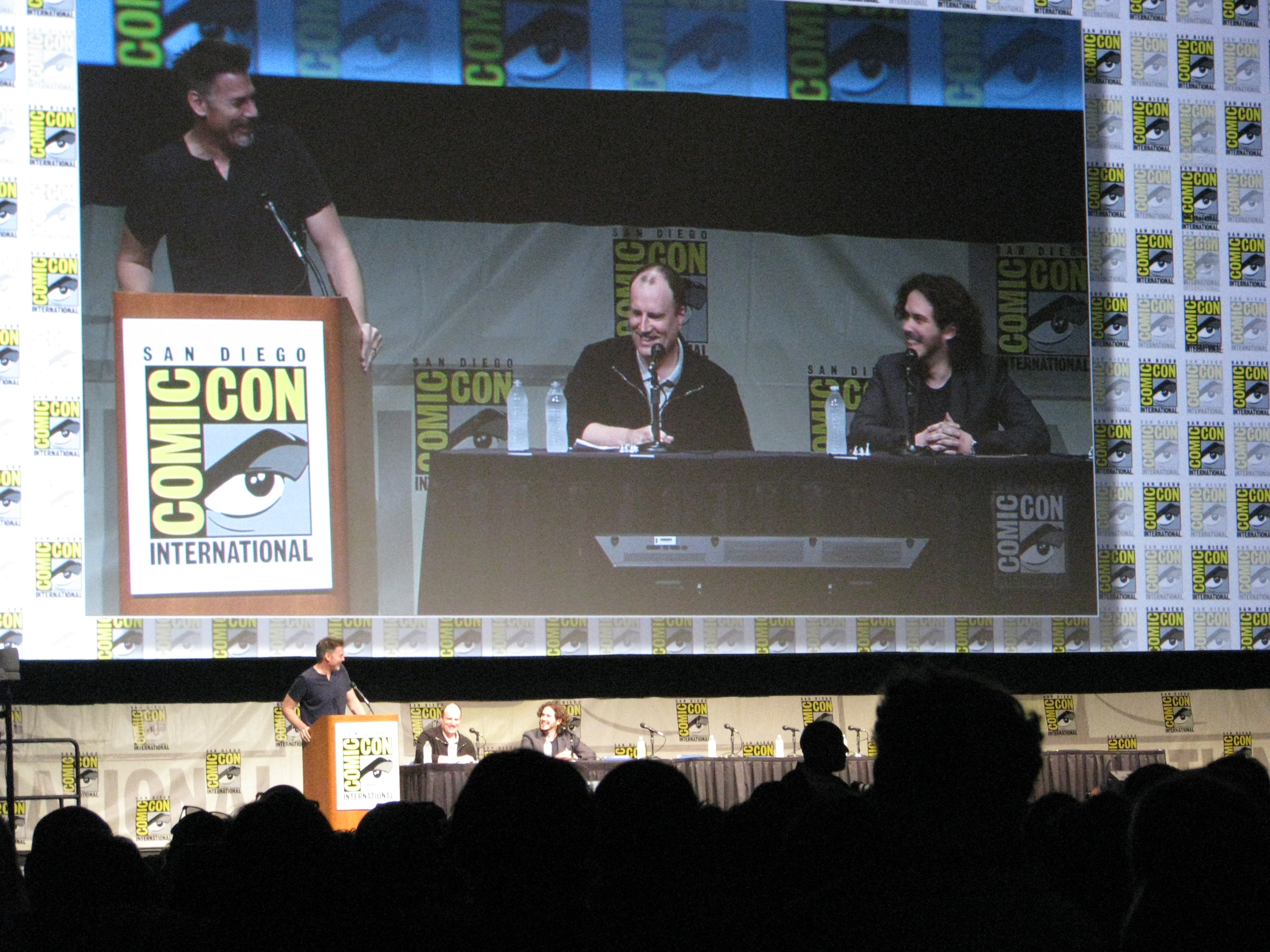 Edgar Wright appearing to show the Ant-Man test trailer